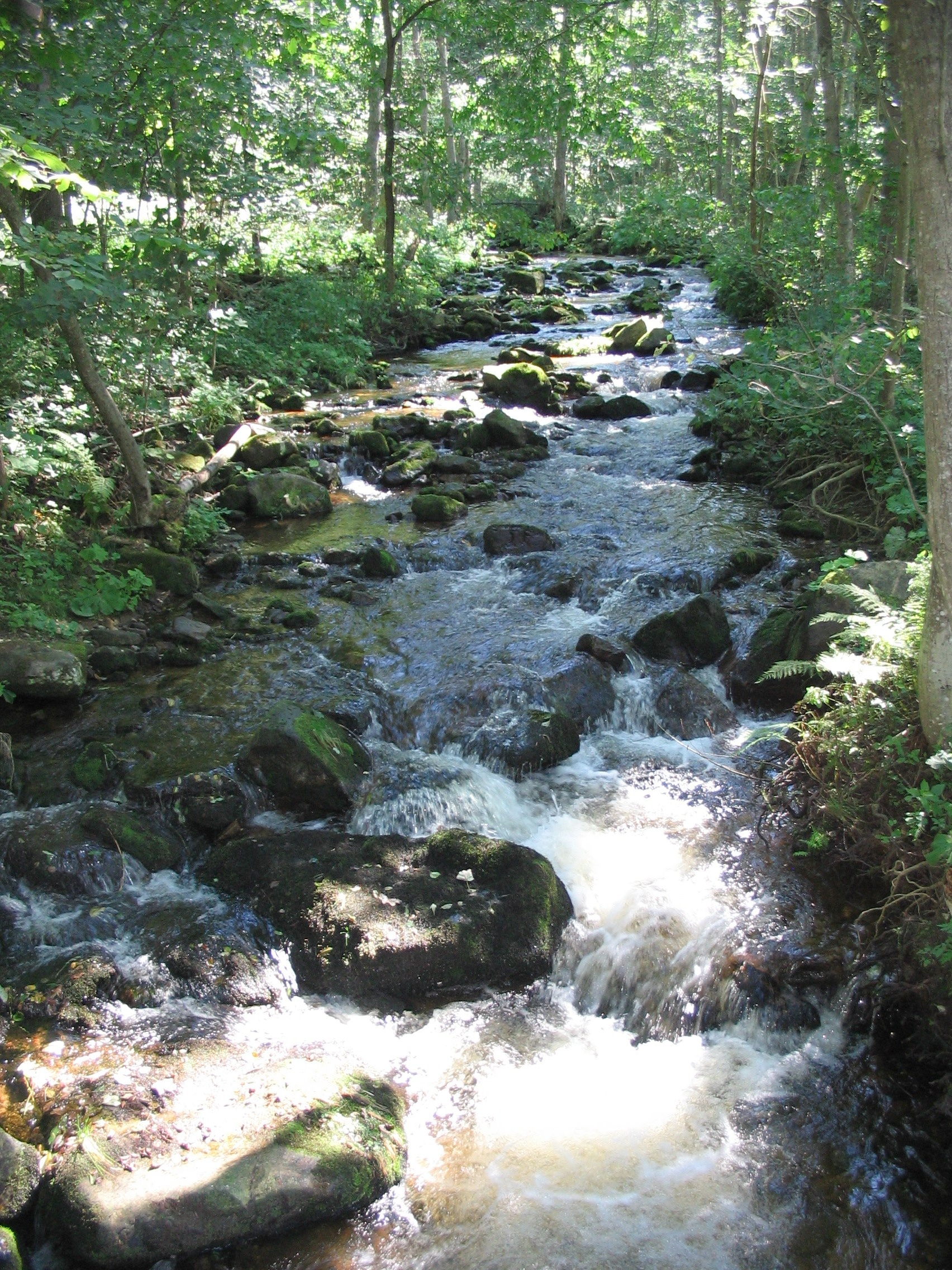 Losenice river in Losenice nature preserve in Bohemian Forest, Klatovy District, Czech Republic